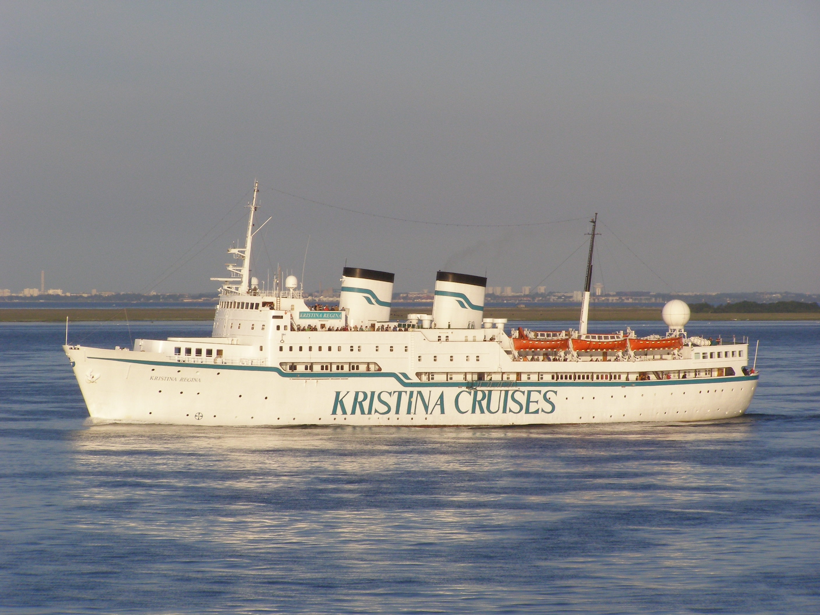 Kristina Regina